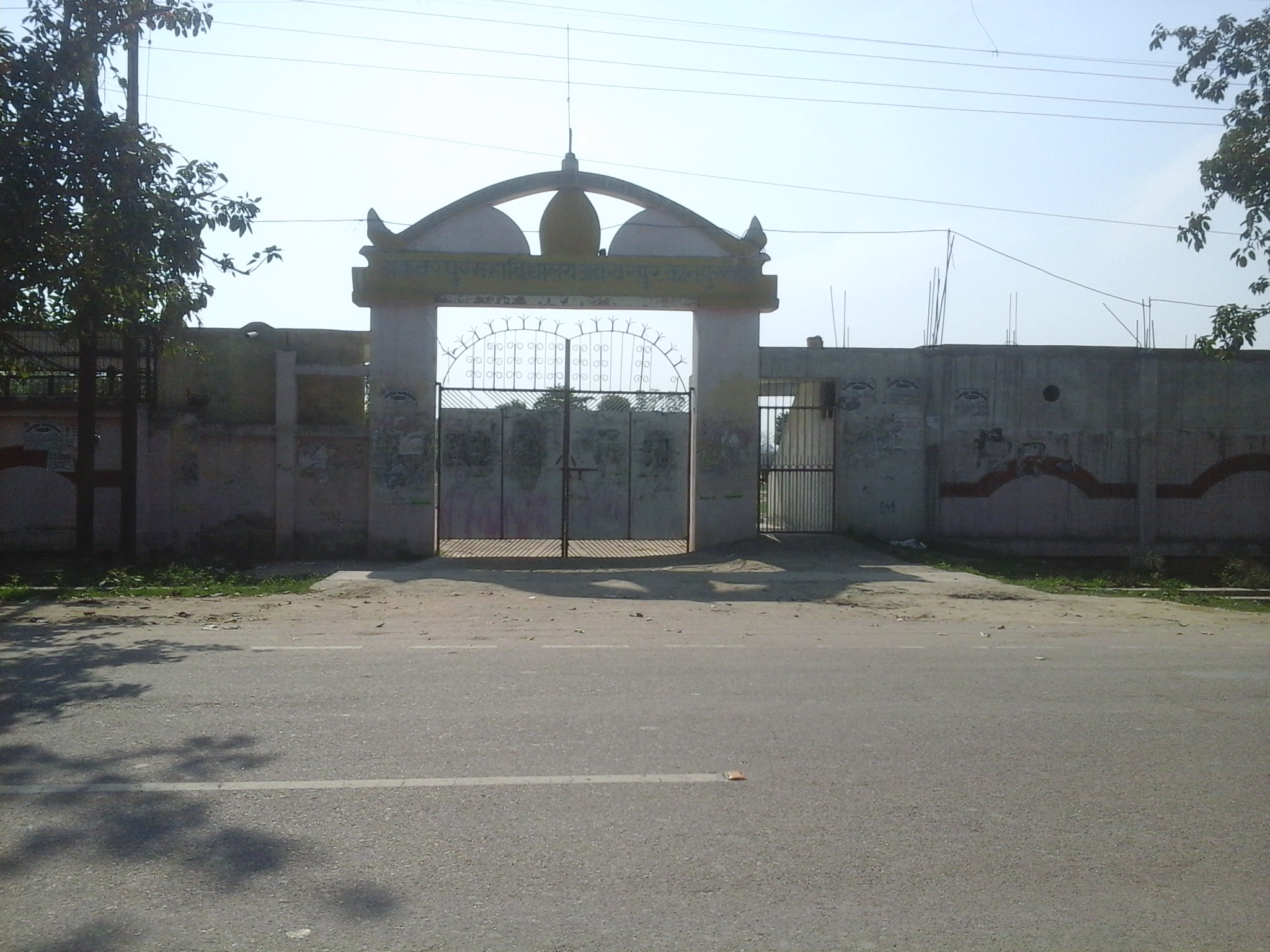 Fron view of Akbarpur Degree College, Akbarpur,Kanpur Dehat, Uttar Pradesh,India.